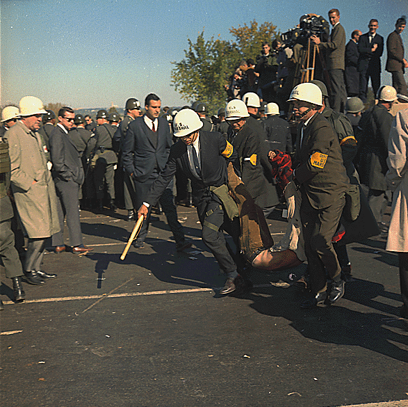 U.S. Marshals dragging away a Vietnam War protester in Washington, D.C., 1967